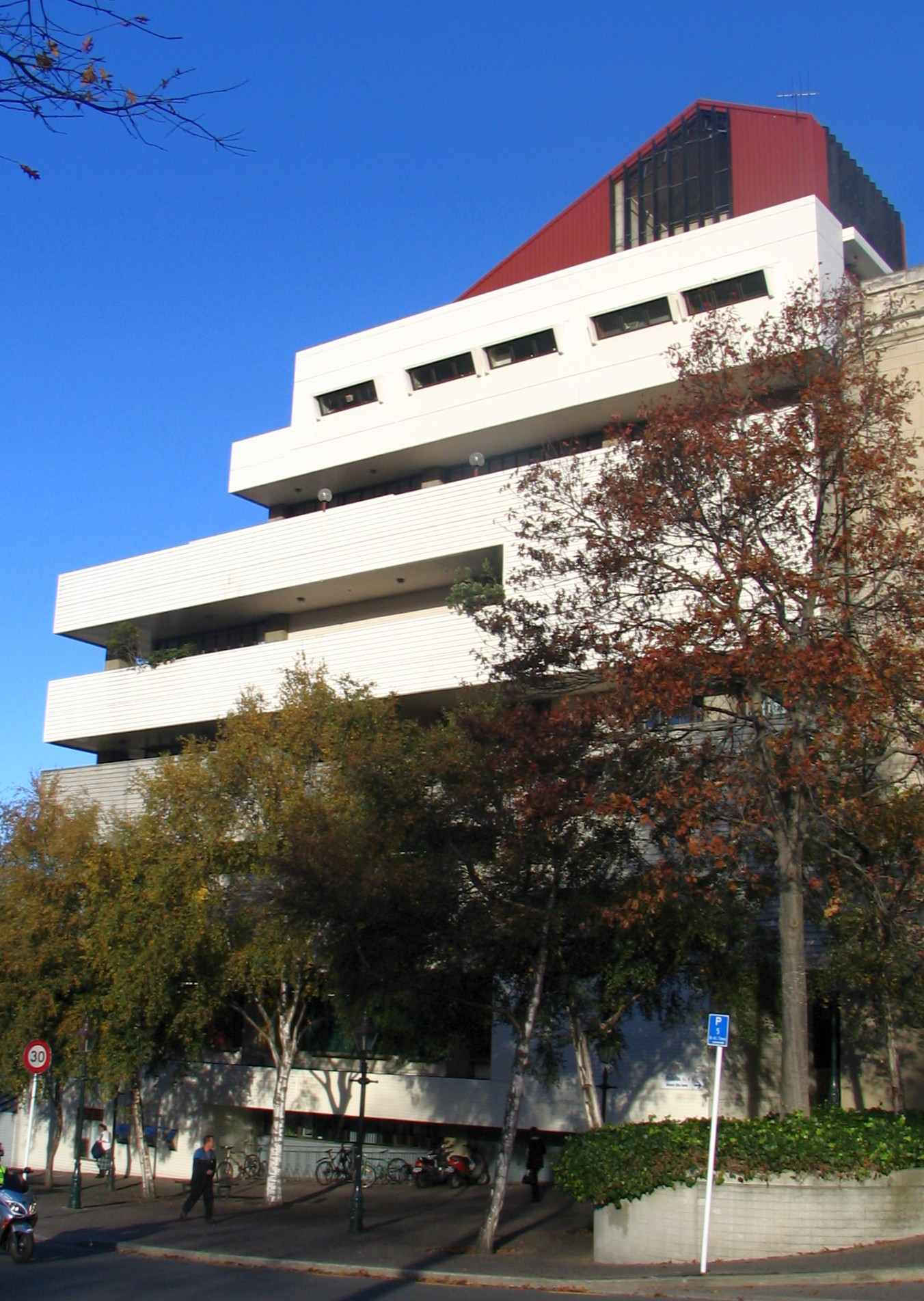 Exterior view of Dunedin Public Libraries City Library, Dunedin, New Zealand. Own photo taken from Moray Place, looking southeast